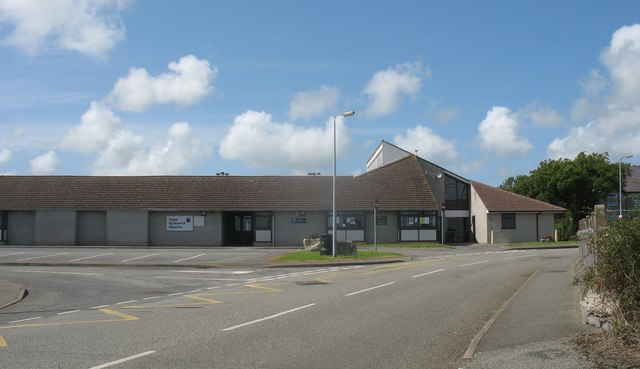 Ysgol Gymuned a Llyfrgell Moelfre Community School and Library